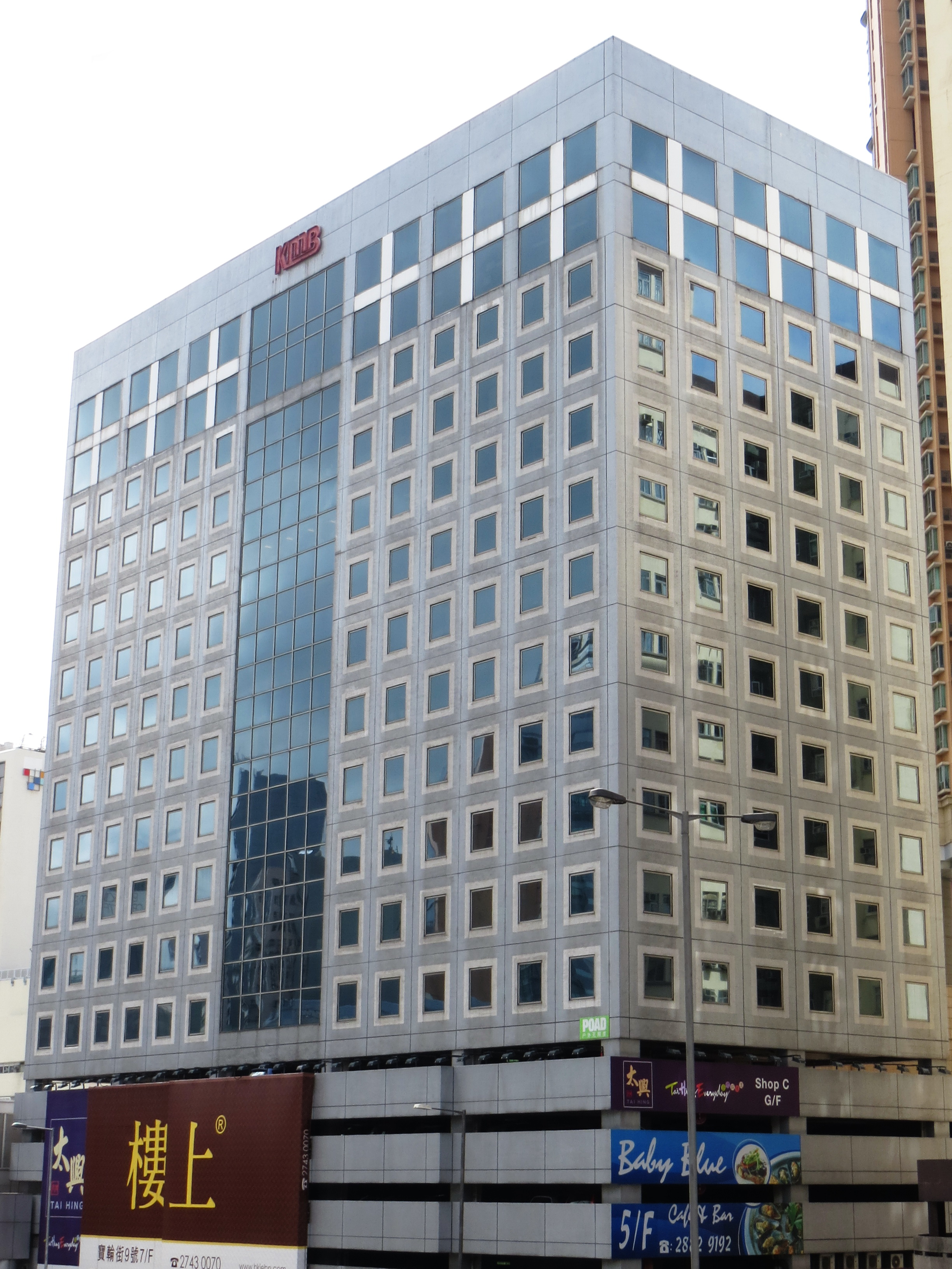 The Kowloon Motor Bus Company (1933) Limited, headquarters, 9 Po Lun Street, Lai Chi Kok, Kowloon, Hong Kong.